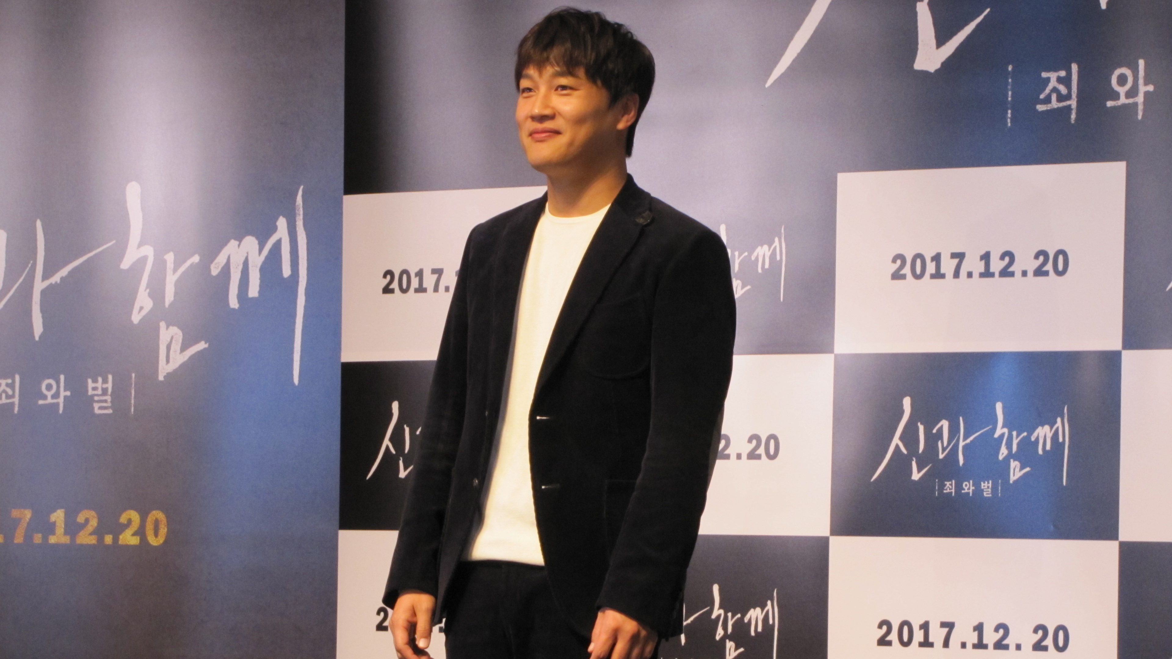 영화 '신과 함께' 죄 와 벌 20일 개봉